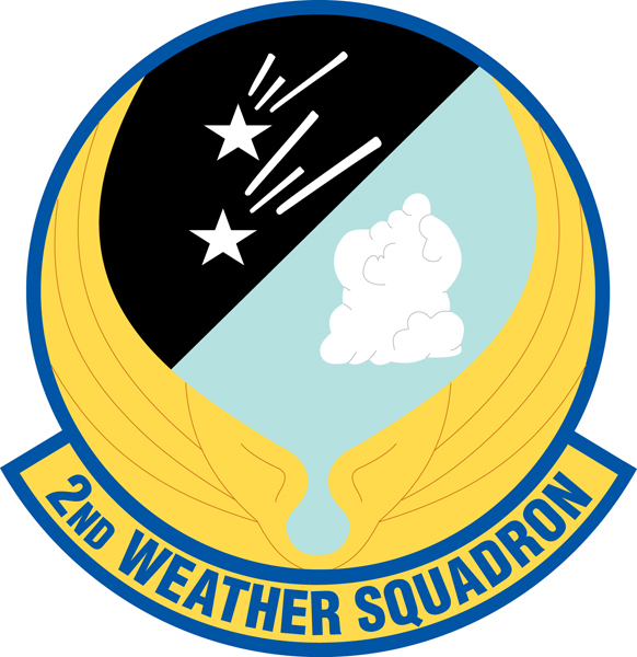 Emblem of the 2d Weather Squadron of the Air Force Weather Agency, United States Air Force, based at Offutt Air Force Base in Nebraska, USA